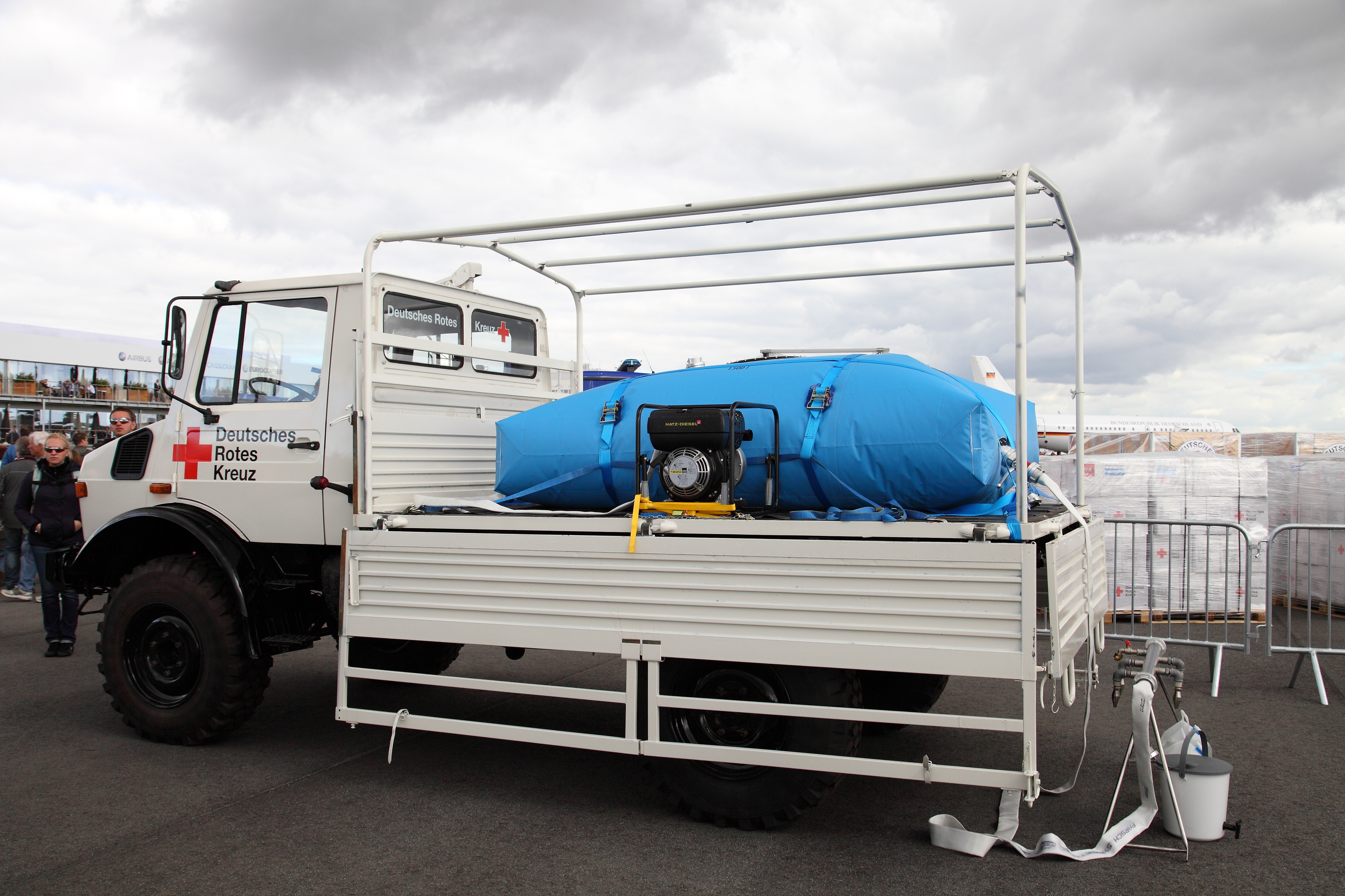 ILA Berlin Air Show 2012 ; Flexitank for emergency or regular drinking water supply, for efficient liquid storage; Flexitank Container